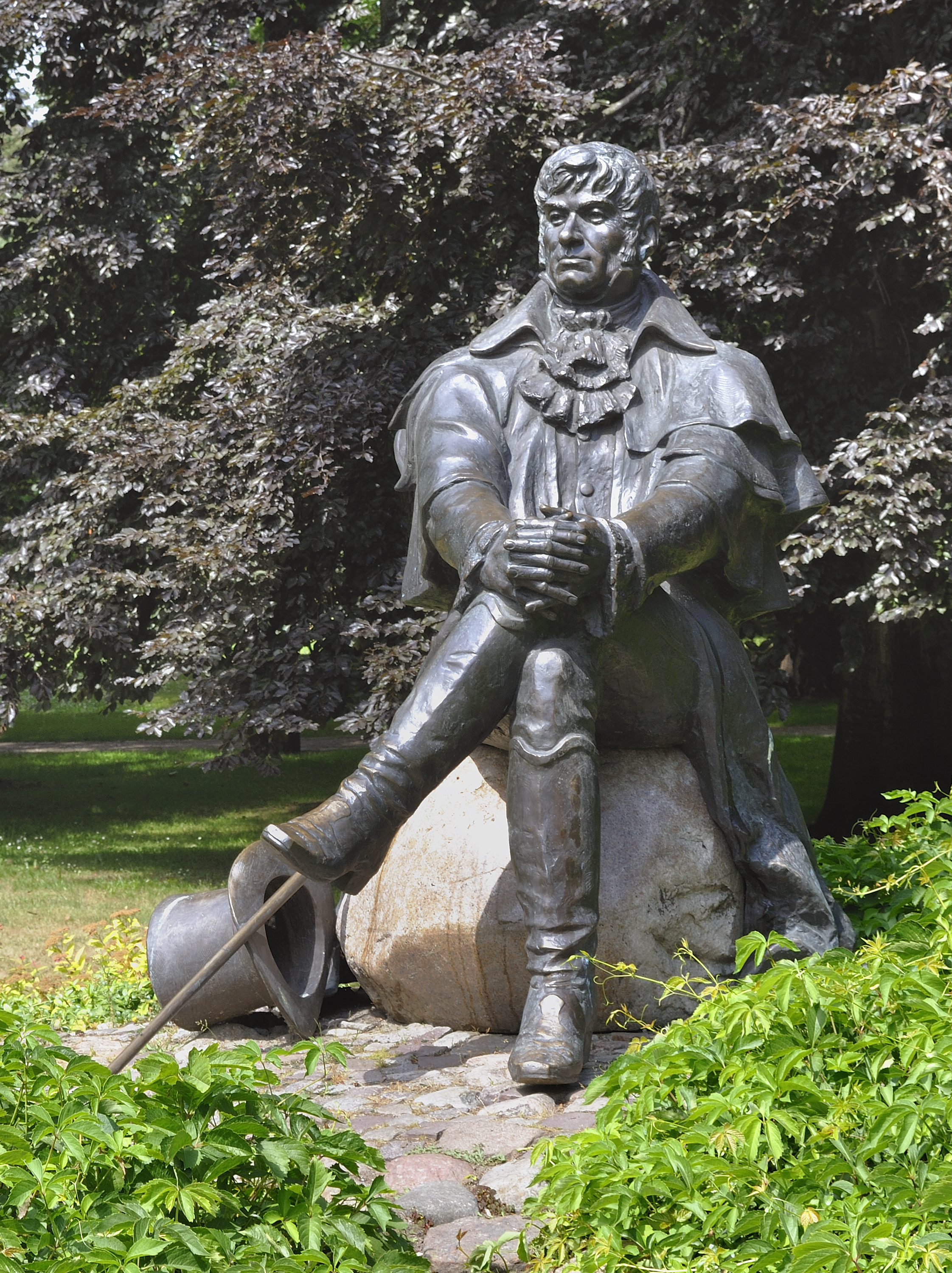 Picture taken in Sopot after Wikimania 2010 conference. Statue of Jean Georg Haffner.